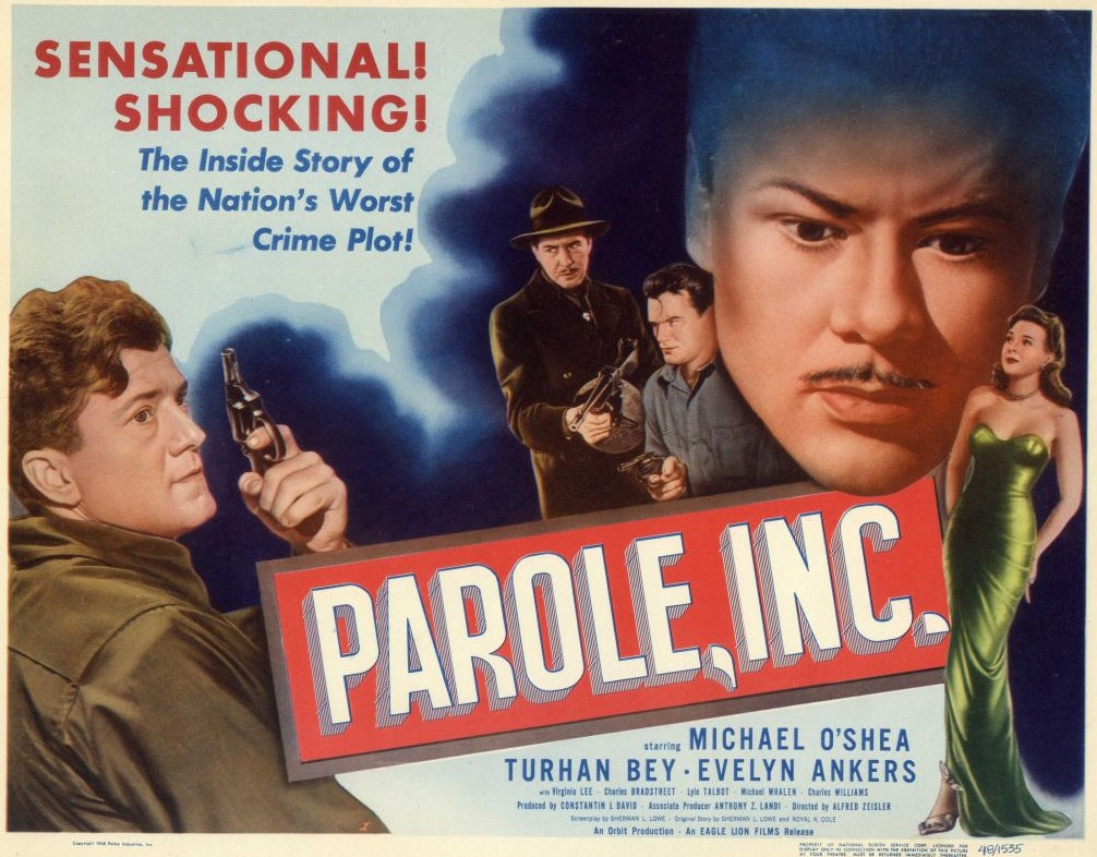 Promotional poster for the film Parole, Inc. (1948) (original image cropped : see source)